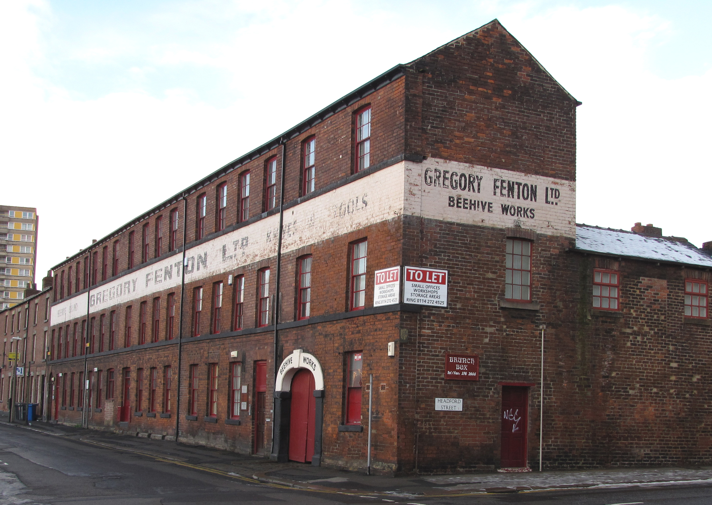 The Beehive Works, a grade II* listed building in Sheffield, England